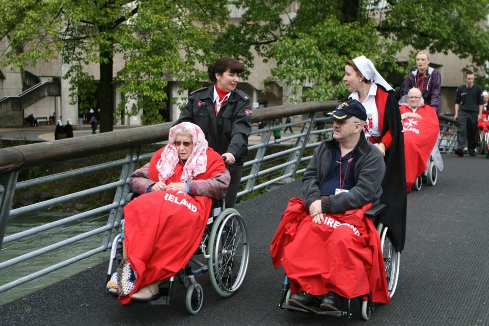 Lourdes Pilgramage